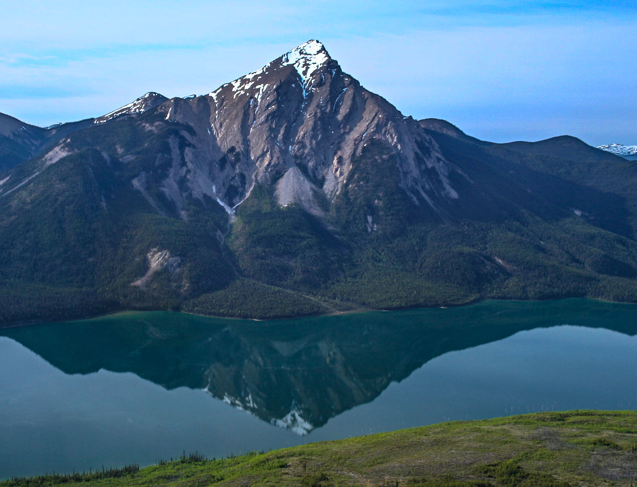 Pelly Peak (2048m) above Pelly Lake